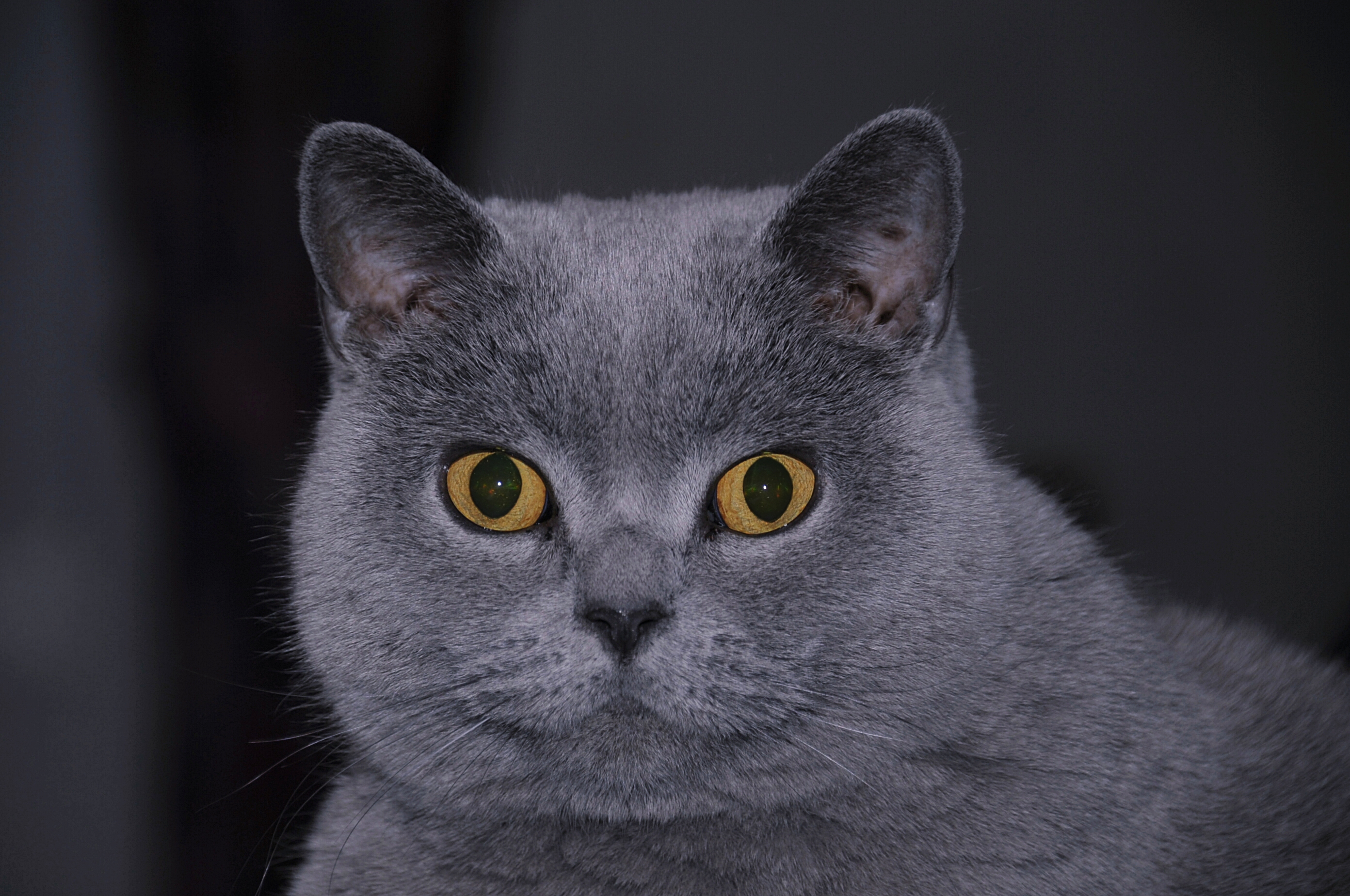 british shorthair